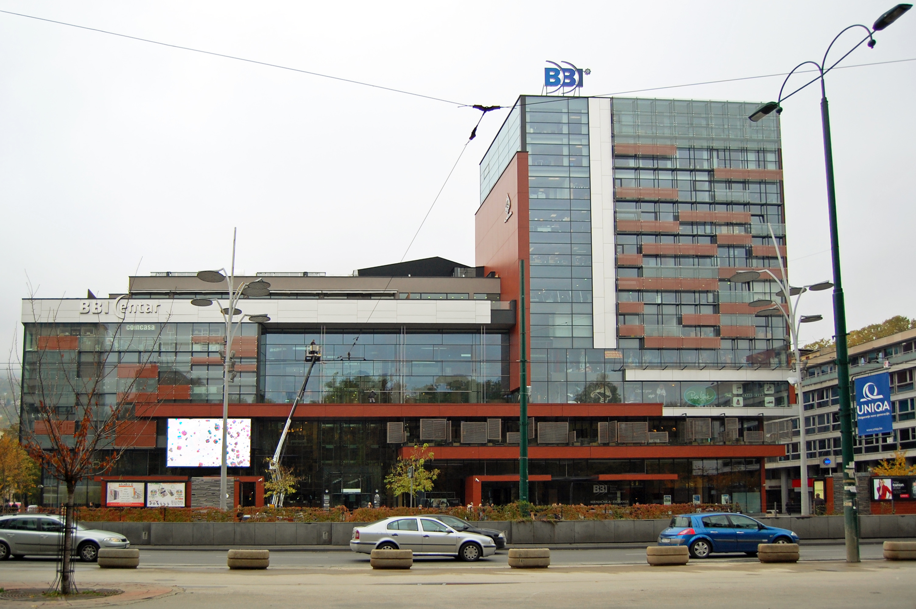 BBI Center in Sarajevo